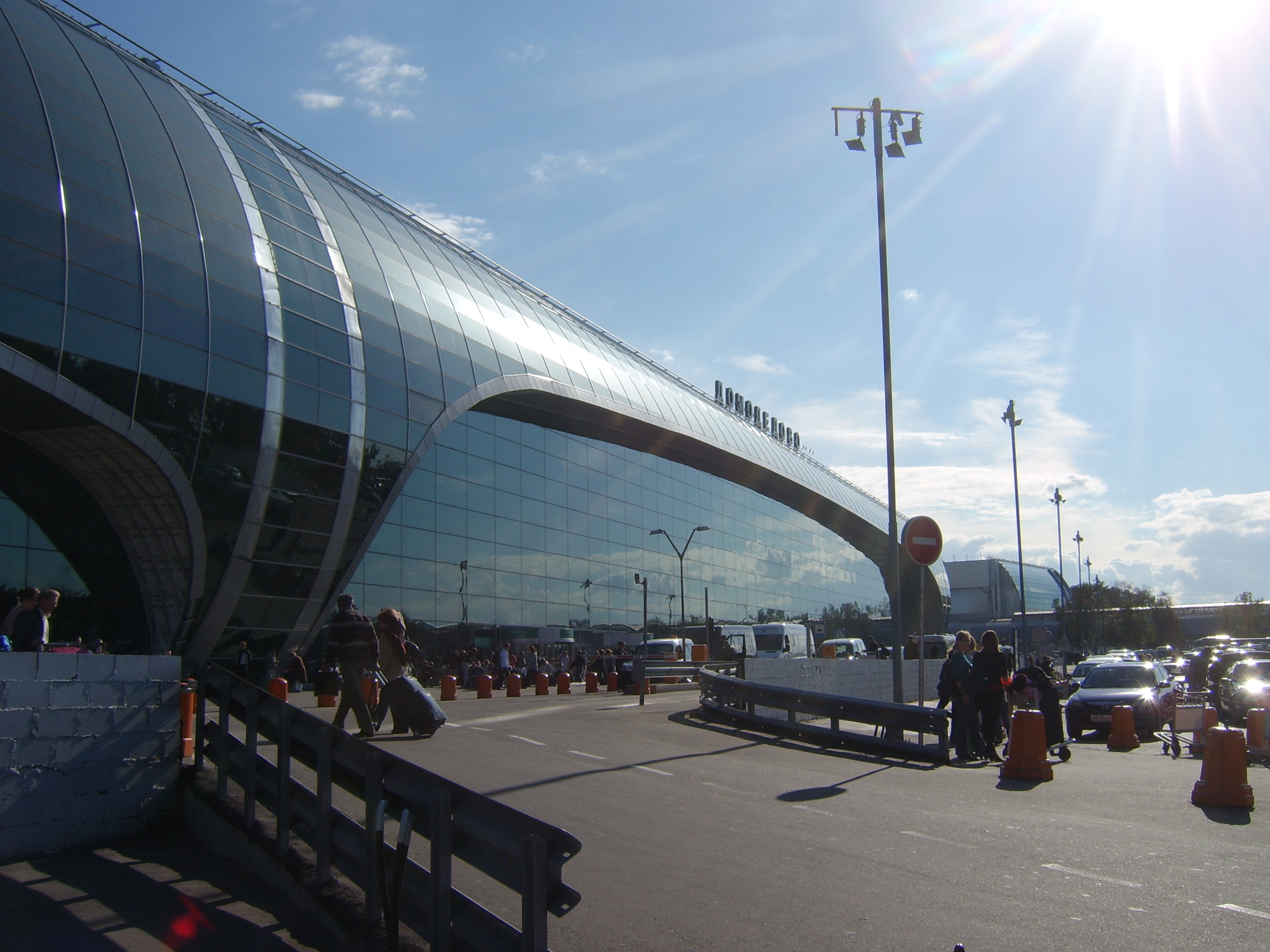 Entrance to Domodedovo Airport.